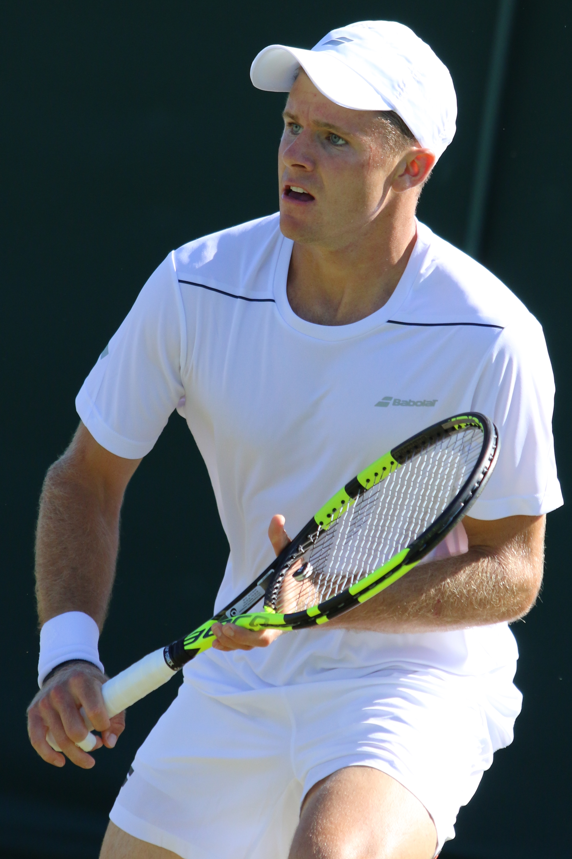 Harrison C. WMQ18 (10)